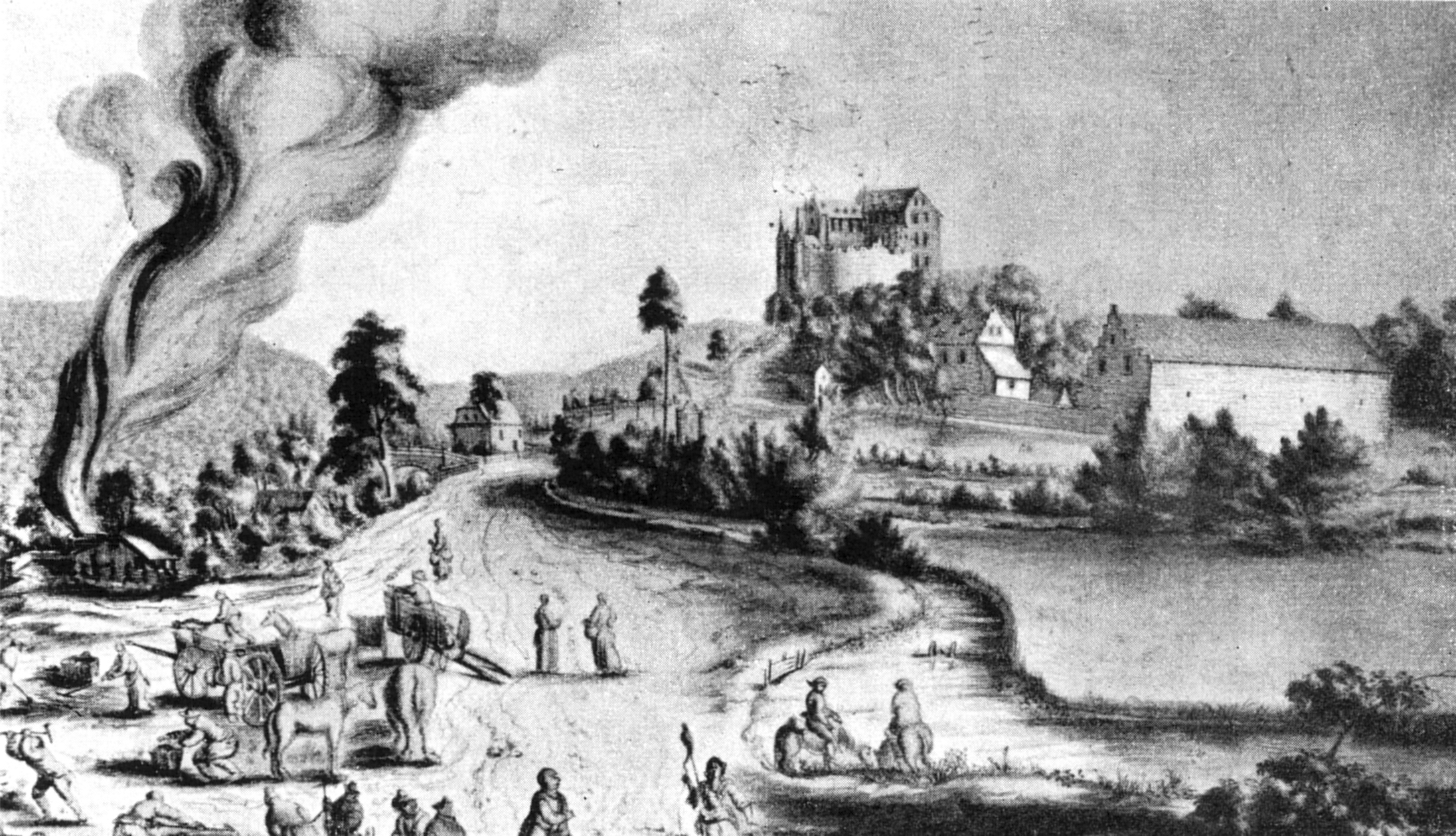 Pen drawing of Herrnstein Castle